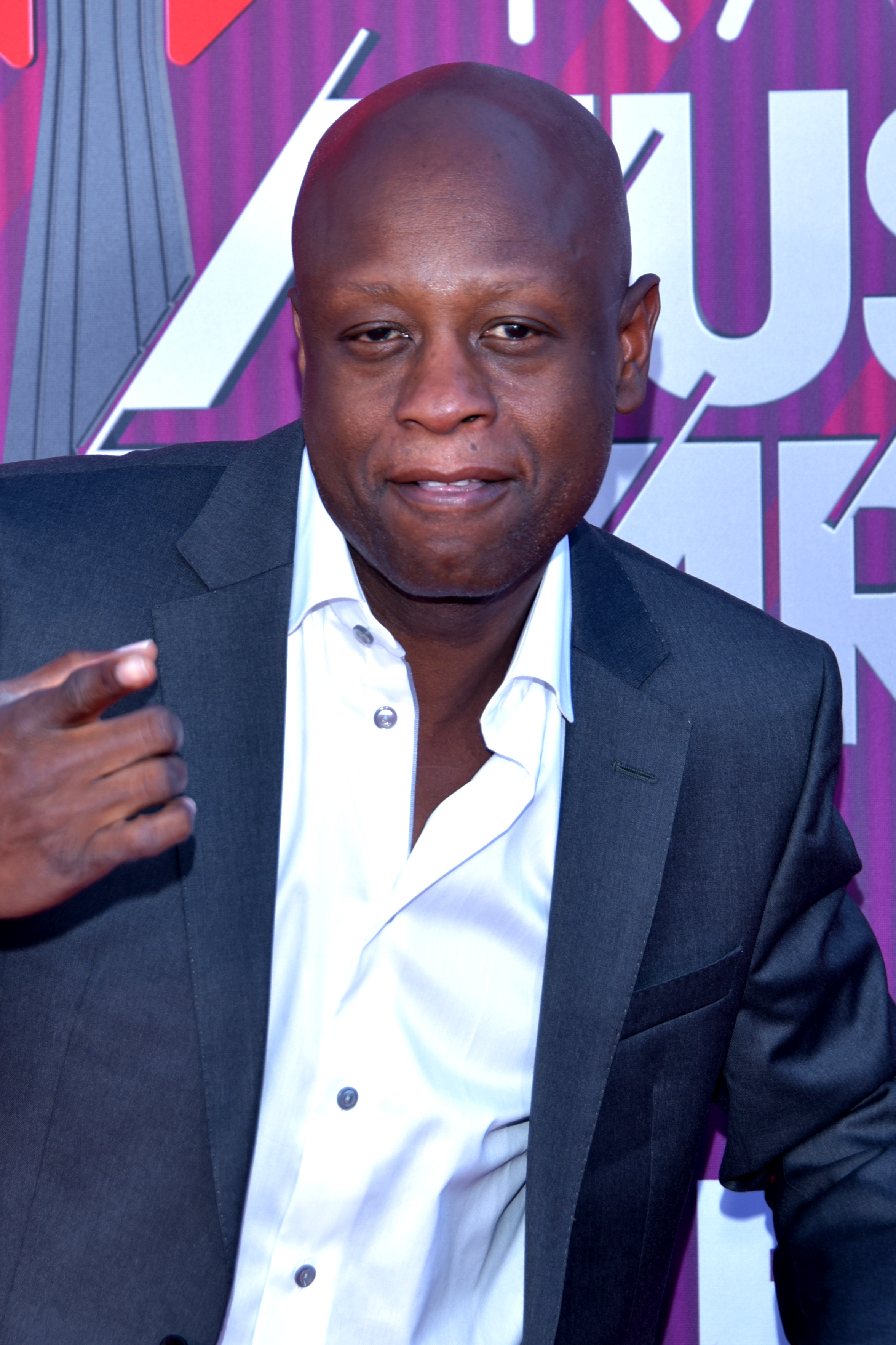 Jerry Duplessis at the 2019 iHeartRadio Music Awards in Los Angeles California on March 14, 2019 - Photo by Glenn Francis of